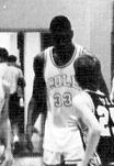 Robert G. Cole High School senior Shaquille O'Neal shooting a free-throw as a member of the 1988-89 Cole Cougars boys' varsity basketball team.